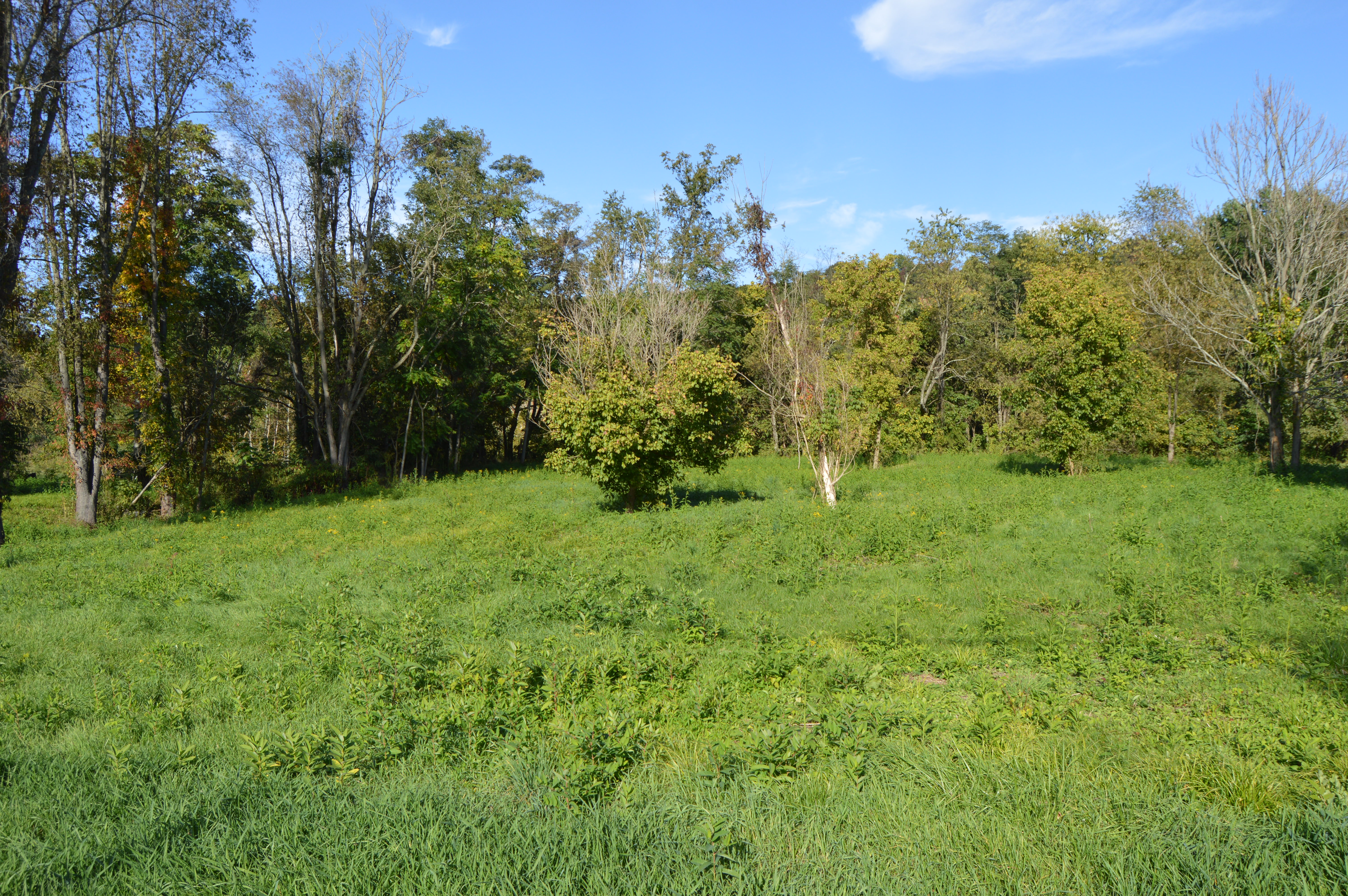 Site of the former glass factory and namesake for Glassboro in Monongahela Township, Greene County, Pennsylvania, United States.